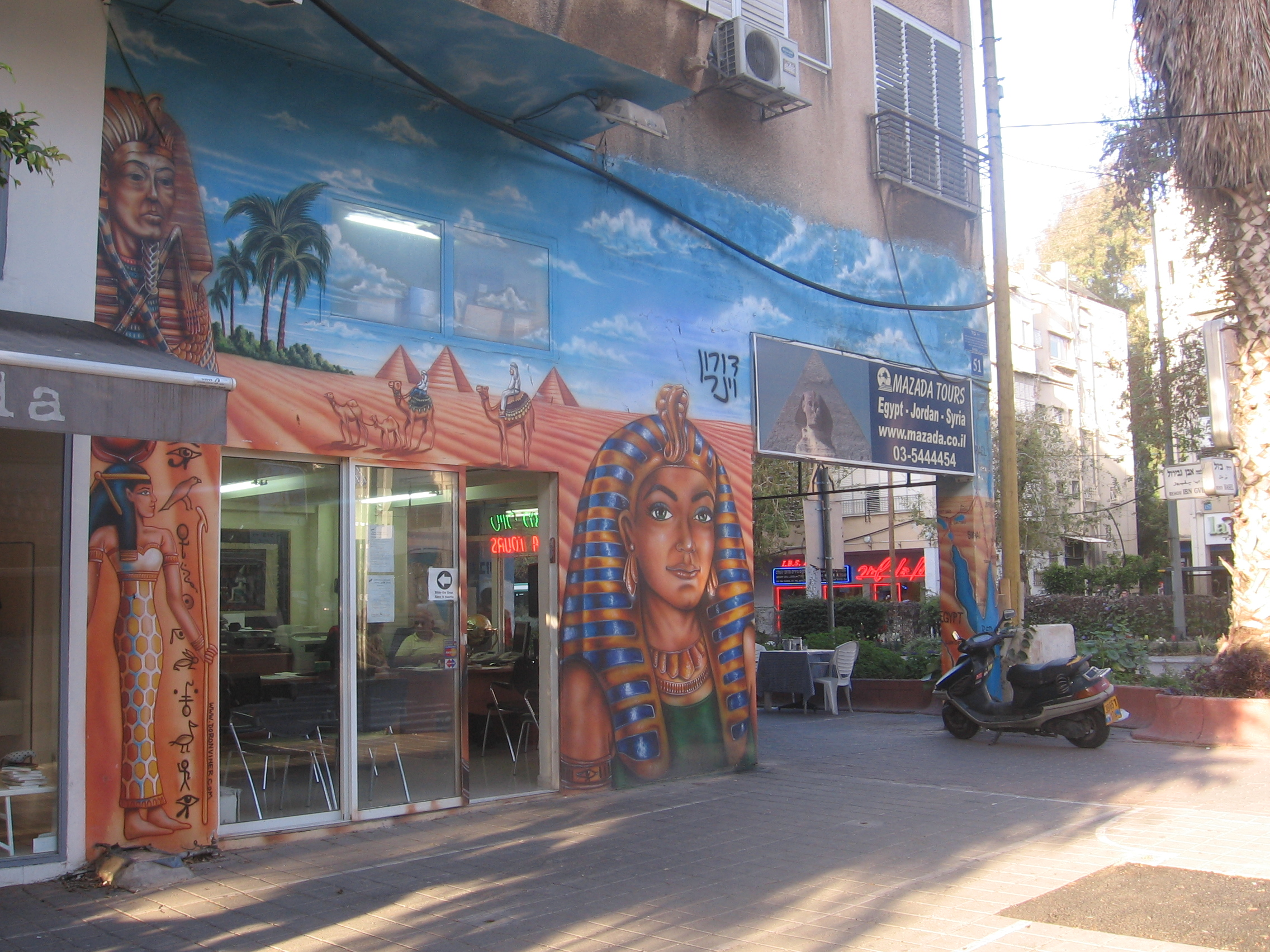 Wall painting by Doron Viner in Tel Aviv.